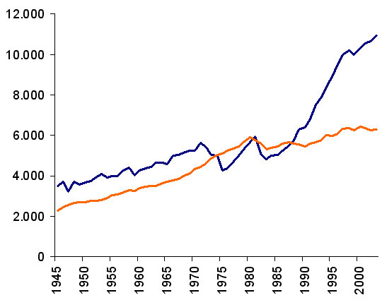 Chile (blue) and South America (orange) GDP per Capita (1945-2003).